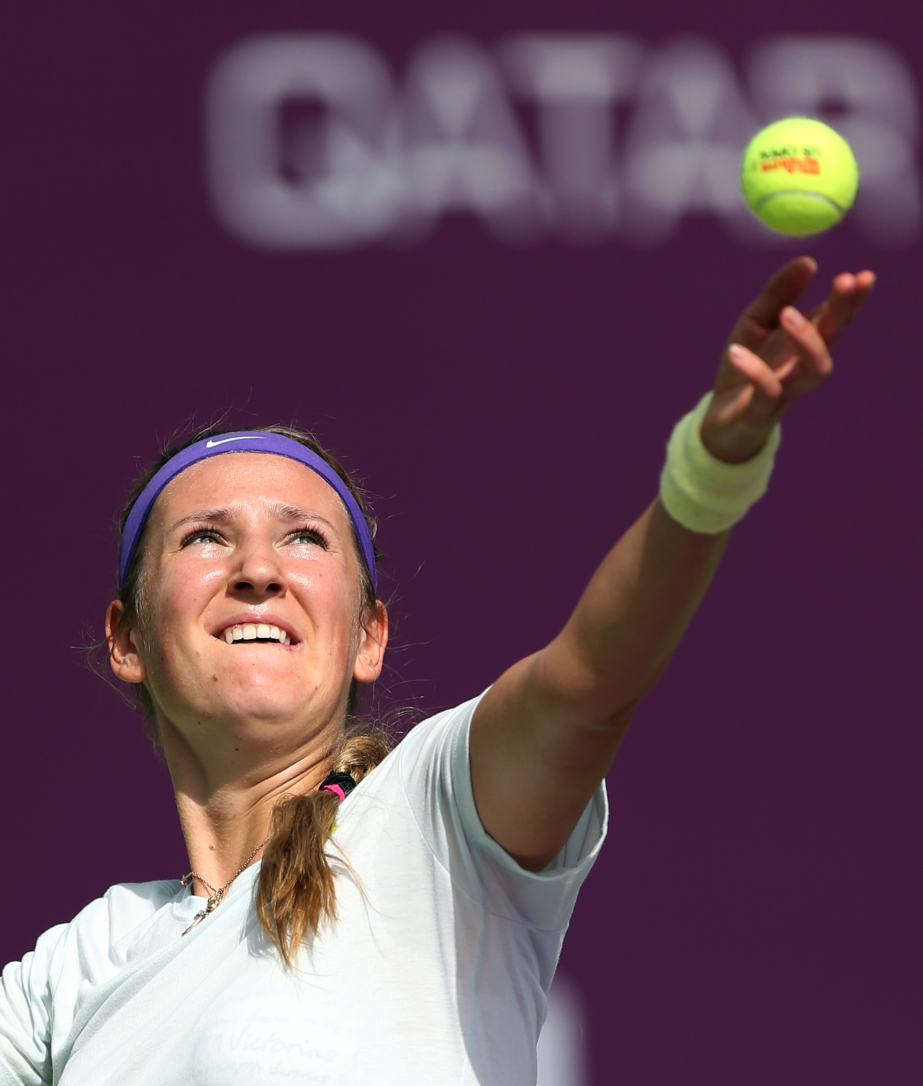 Belarissian tennis player Victoria Azarenka during a training session in Doha. Picture by Vinod Divakaran